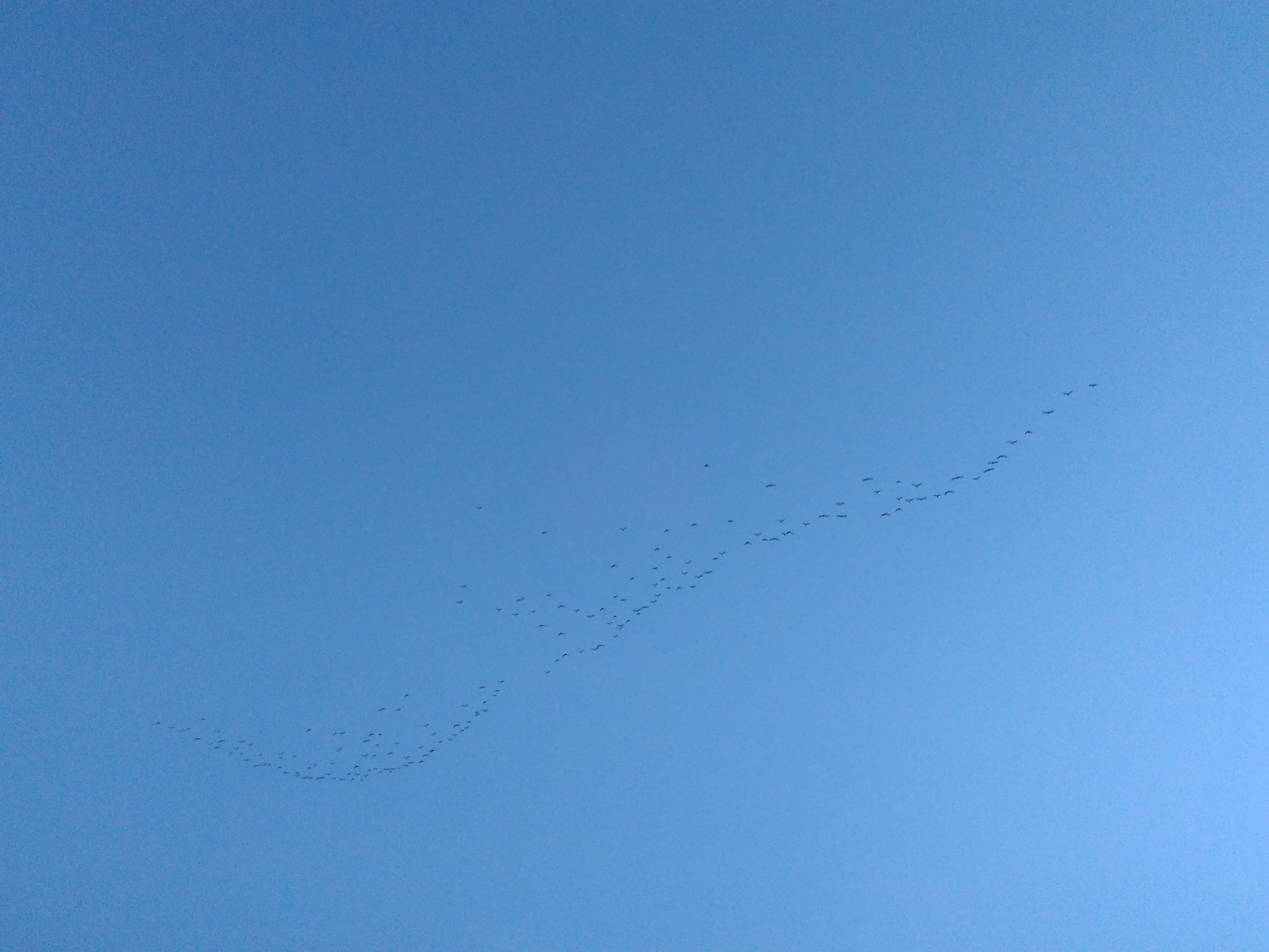 flock of bird in sky